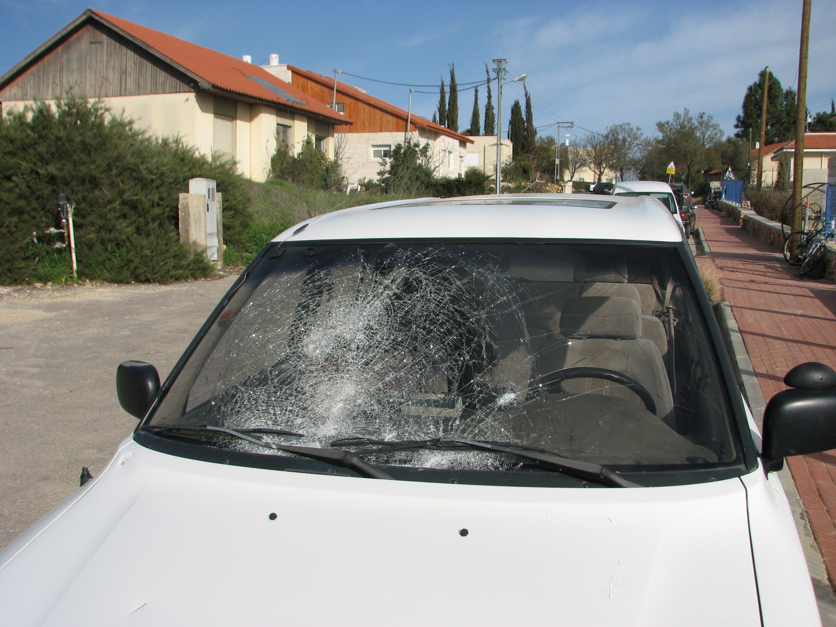 Israeli car stoned by arabs in the Gush-Etzion region, Israel